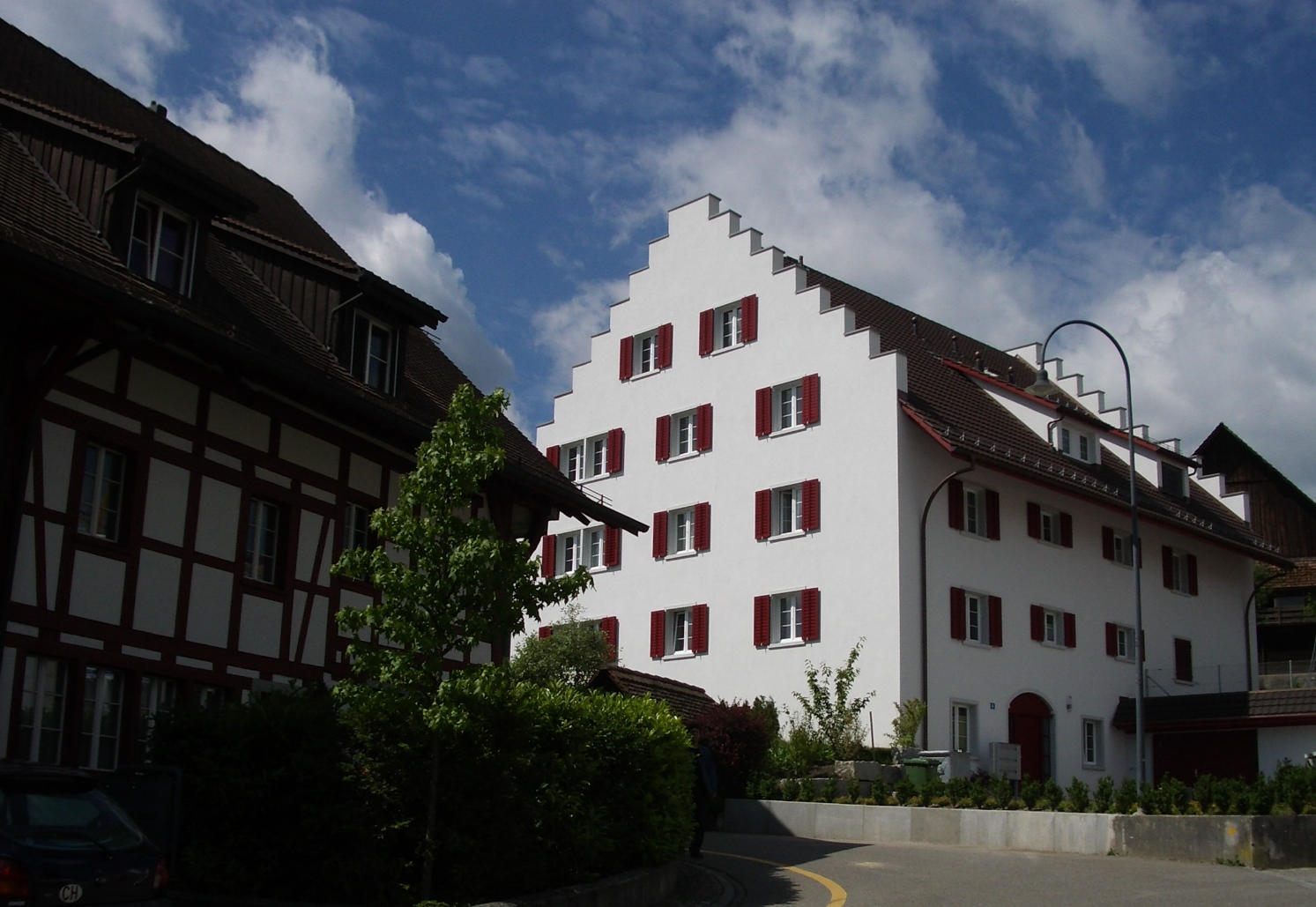 Rümlang ZH, Switzerland